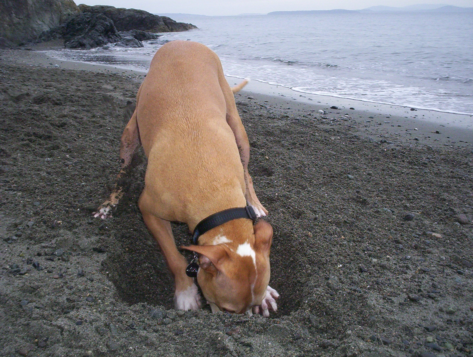 Zeus the Pit Bull Digging For China